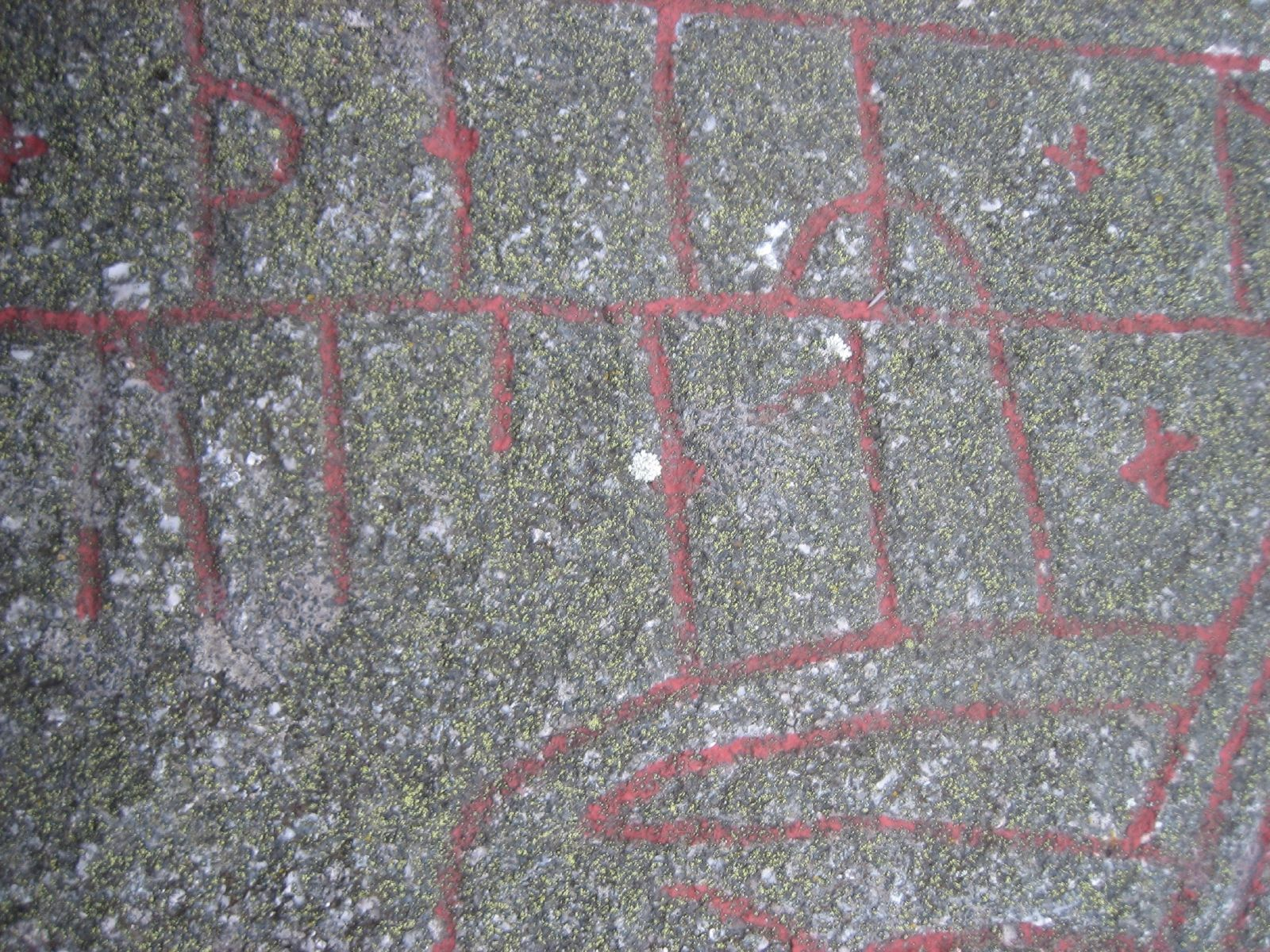 Runes for Visäte the name of the carver of the Granby runestone (U 337)